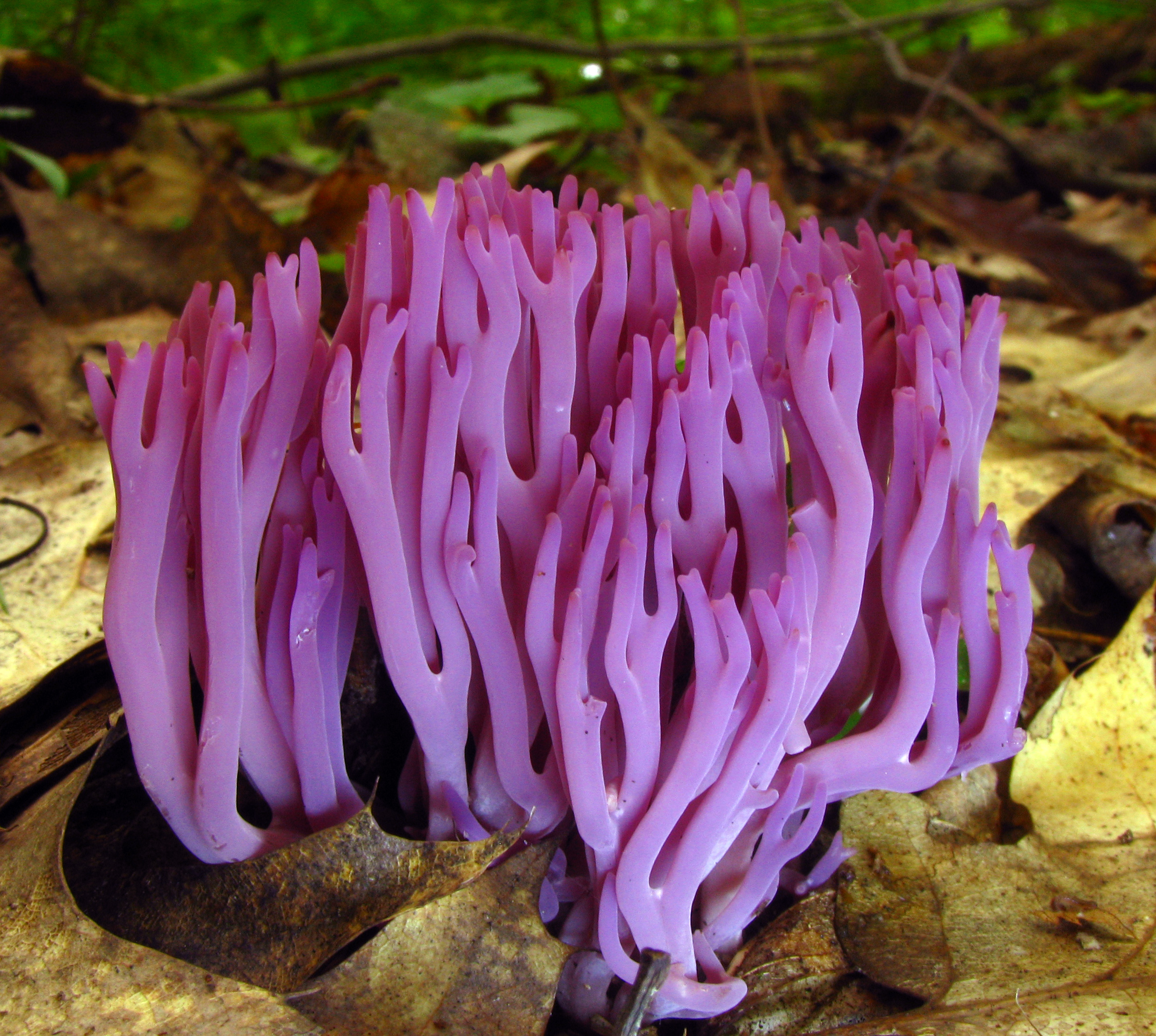 The coral fungus Clavaria zollingeri Lév. Specimen photographed in Babcock State Park, Fayette Co., West Virginia, USA.